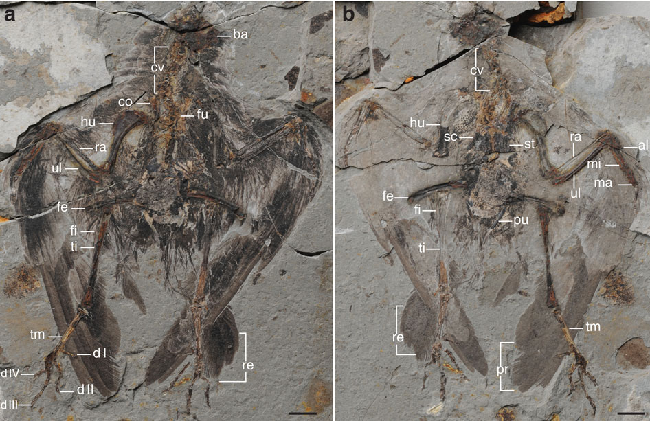 Holotype of Archaeornithura meemannae STM7-145. Picture (a) Main slab, (b) counter slab. Scale bars: 10 mm. Anatomical abbreviations: al, alular digit; ba, basicranium; co, coracoid; cv, cervical vertebrae; d I–IV, pedal digit I–IV; fe, femur; fi, fibula; fu, furcula; hu, humerus; ma, major digit; mi, minor digit; pr, primary remiges; pu, pubis; ra, radius; re, rectrices; sc, scapula; st, sternum; ti, tibiotarsus; tm, tarsometatarsus; ul, ulna.